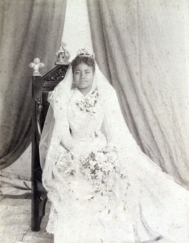 Queen Lavinia Veiongo, bride of King Tupou II, Tonga, 1899 / J. Martin, Auckland.